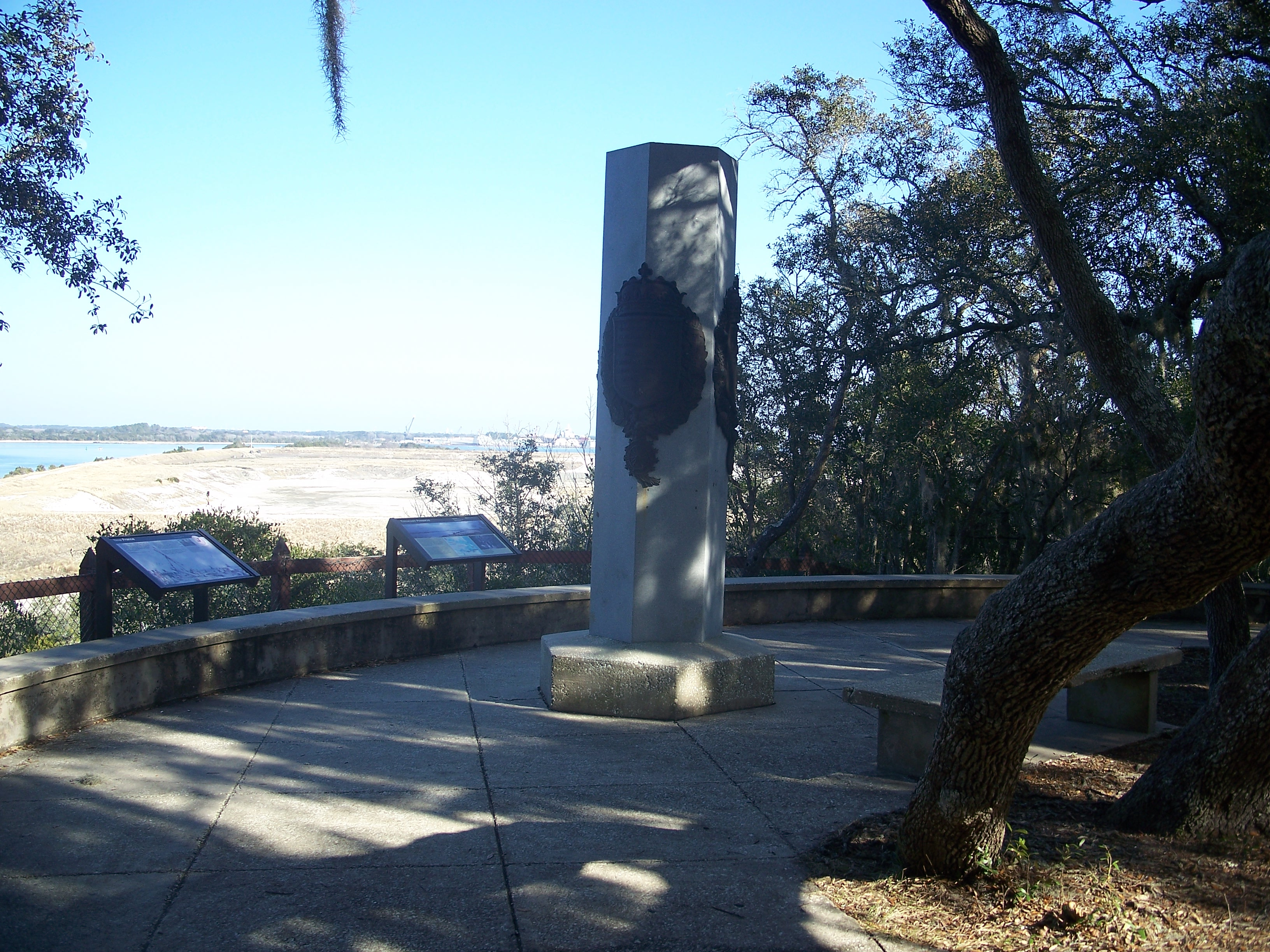 Timucuan Ecological and Historic Preserve: Fort Caroline National Memorial: Ribault monument